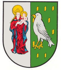 Coat of arms of Finkenbach-Gersweiler